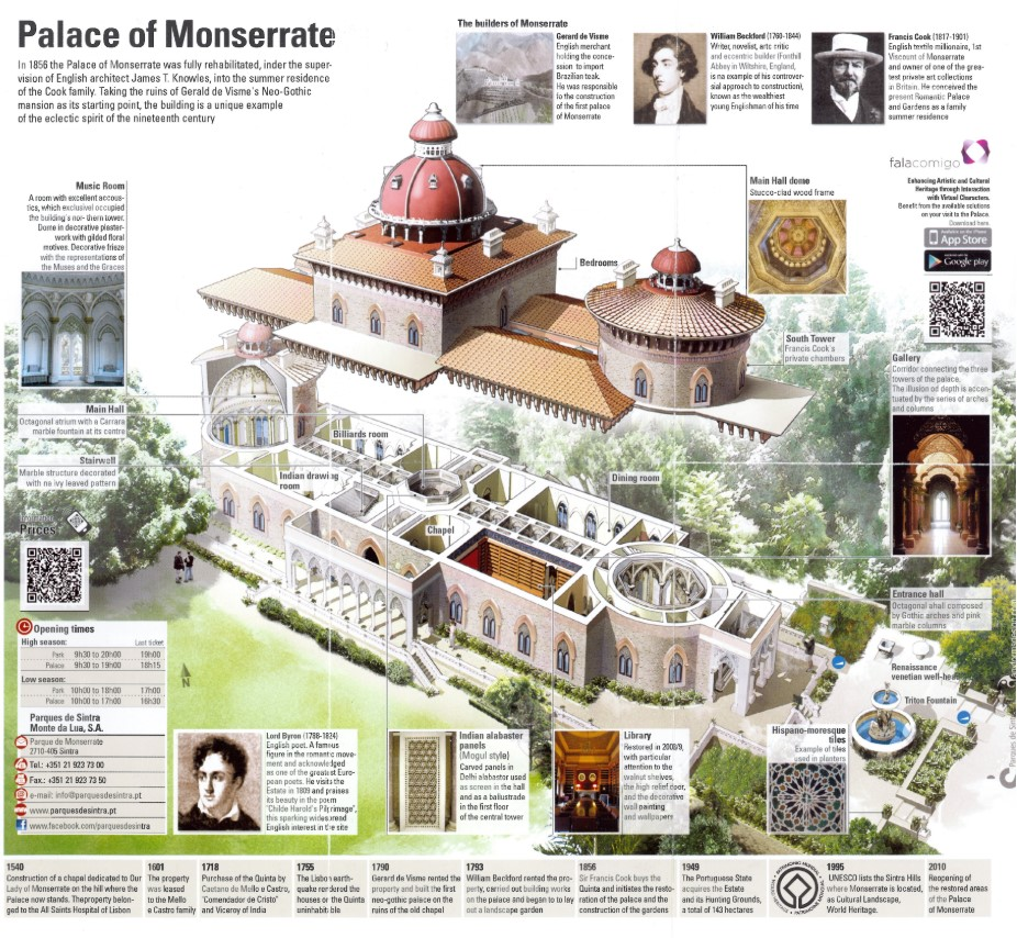 Monserrate Palace